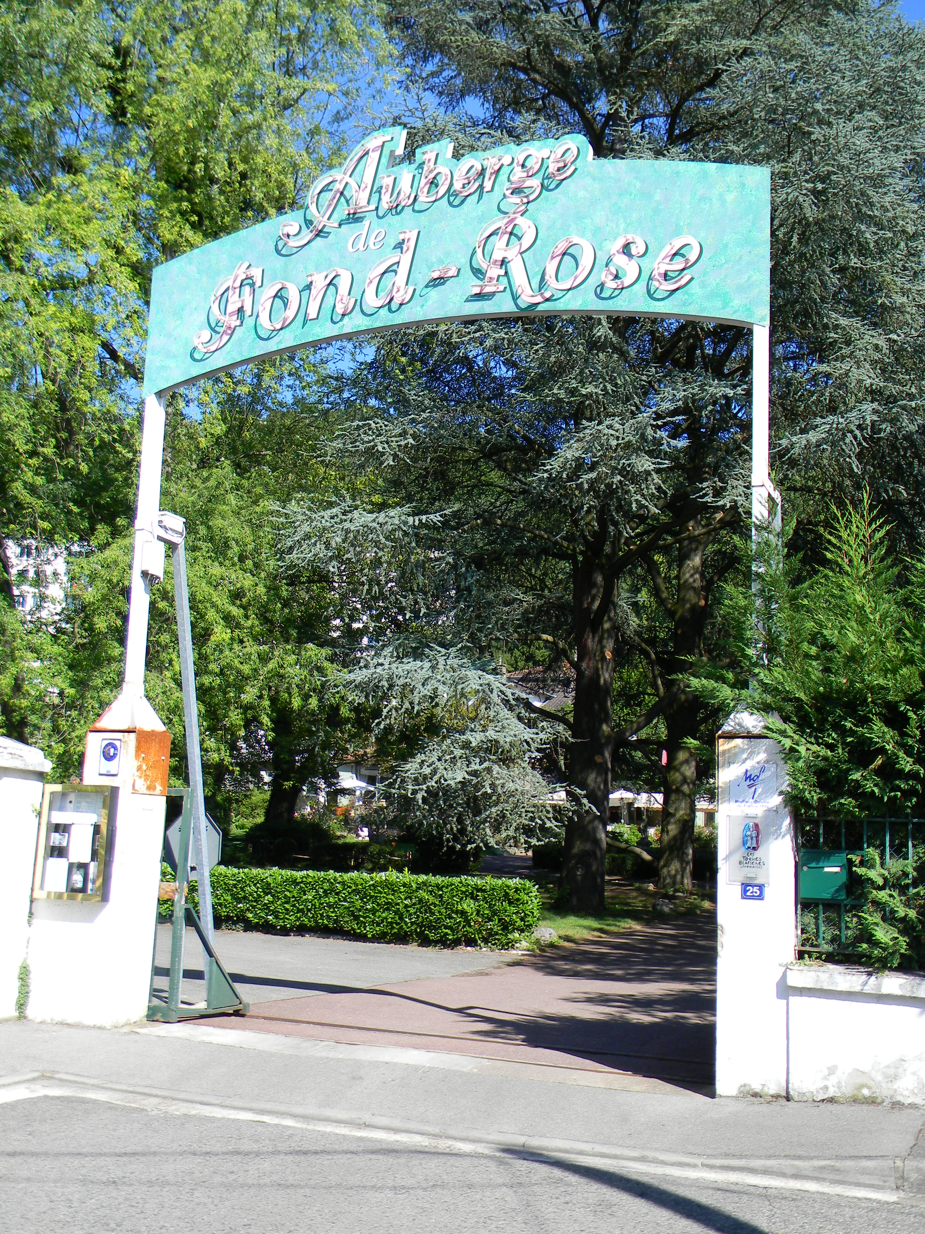 Fond-Rose inn in Caluire-et-Cuire.